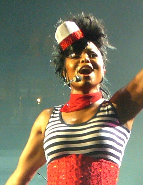 Janet Jackson, Vancouver